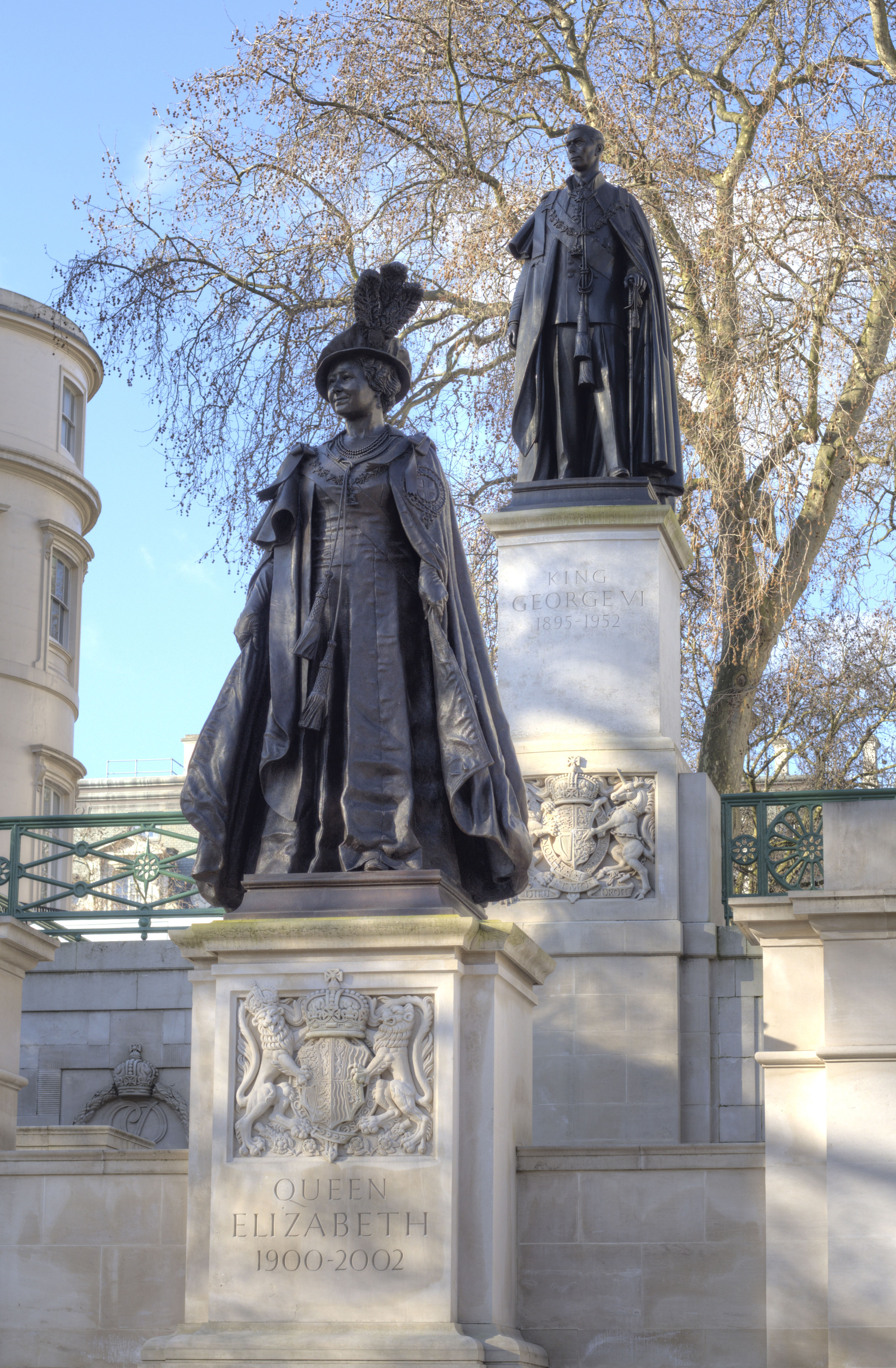 Statues on the George VI and Queen Elizabeth Monument